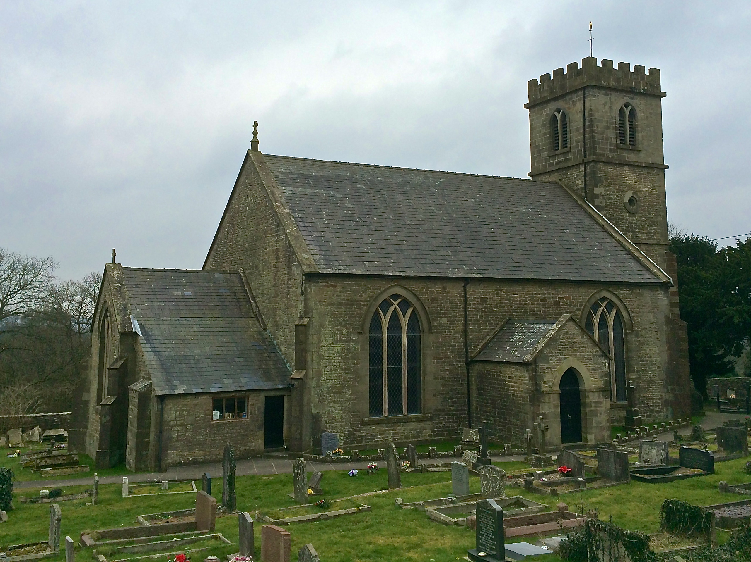 Holy Trinity parish church, Harrow Hill, Drybrook, Gloucestershire, seen from the north